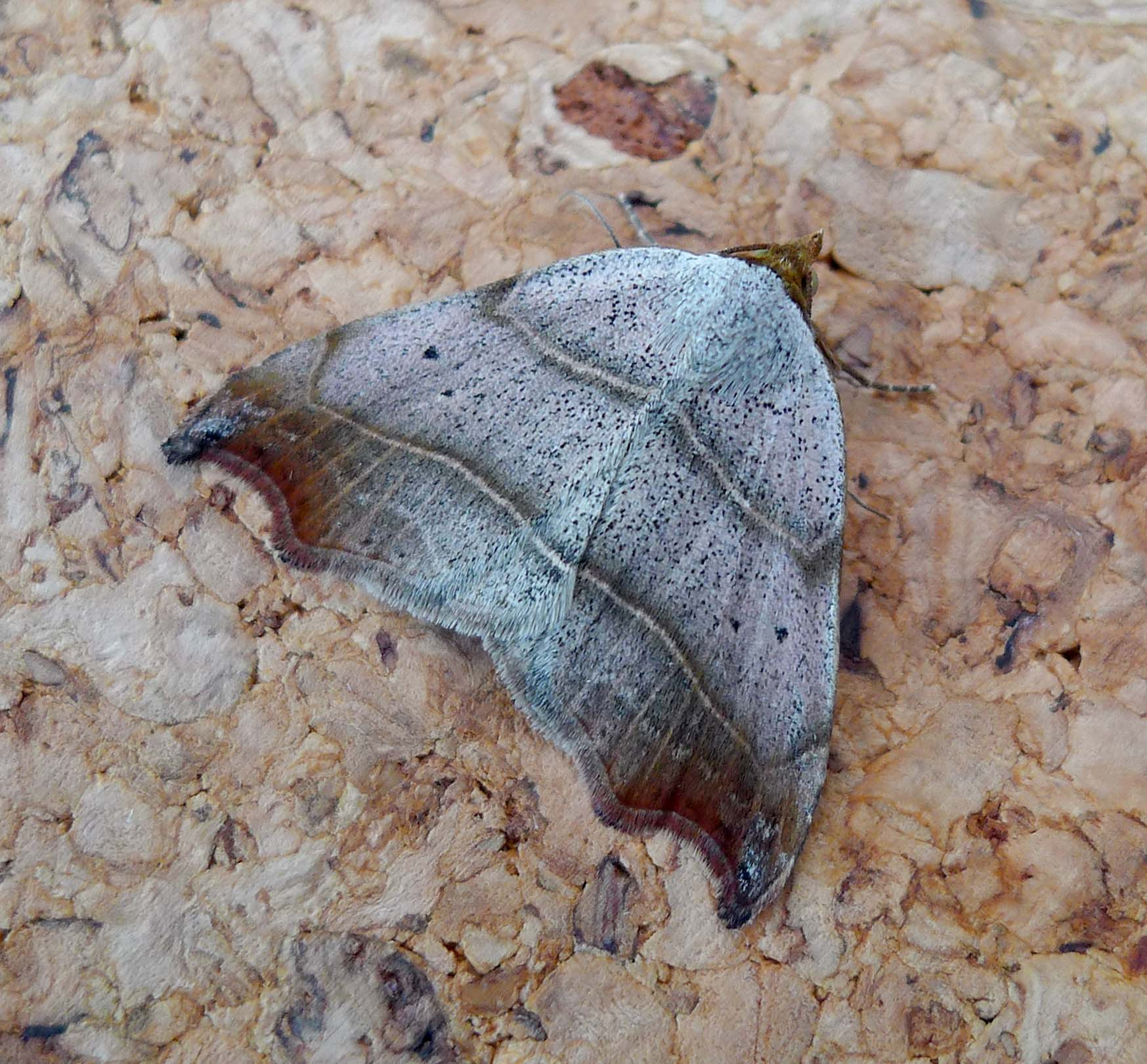 SO 7347 Cradley, Malvern, Worcs. U.K